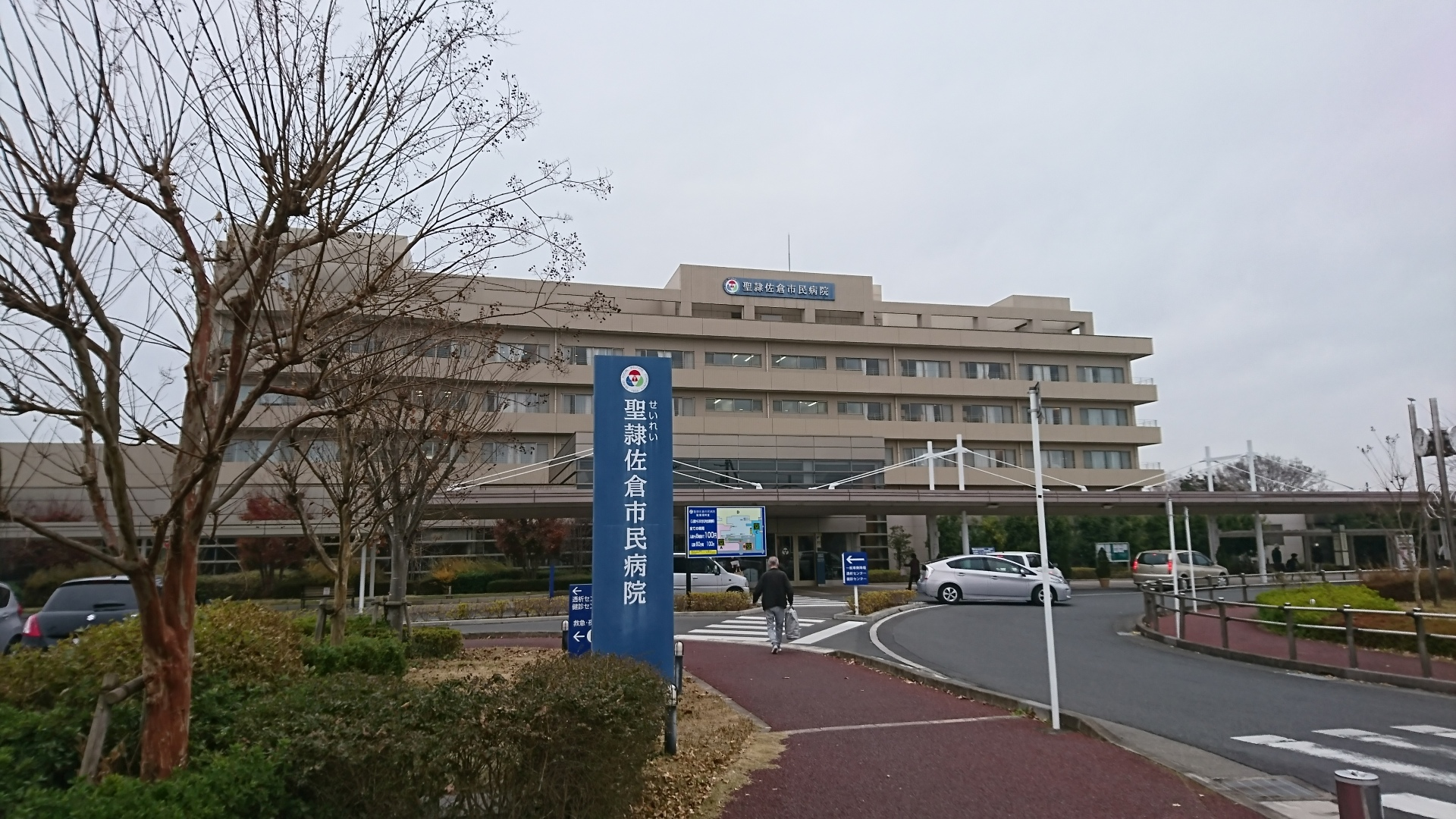 This is Seirei Sakura Citizen Hospital which I took in 2017.